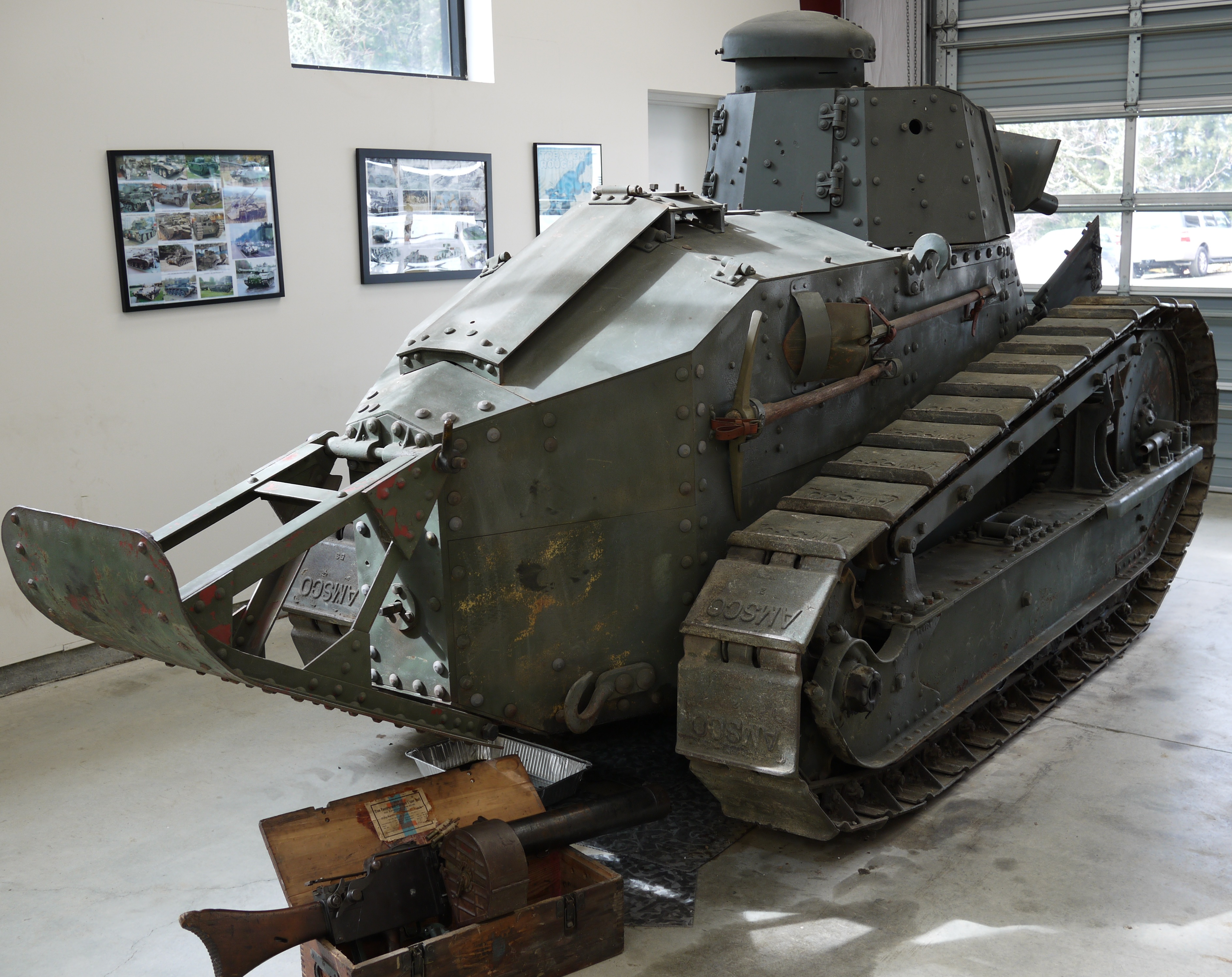 View from the rear 3/4 of a M1917A1 tank at MVTF. Also, a machine gun.